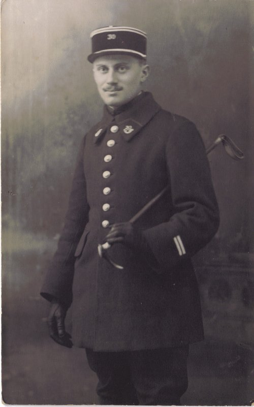 Photo du Lieutenant Pierre-Elie Jacquot en 1924 au 30ième Bataillon Alpin de Chasseurs à Pied (B.A.C.P)